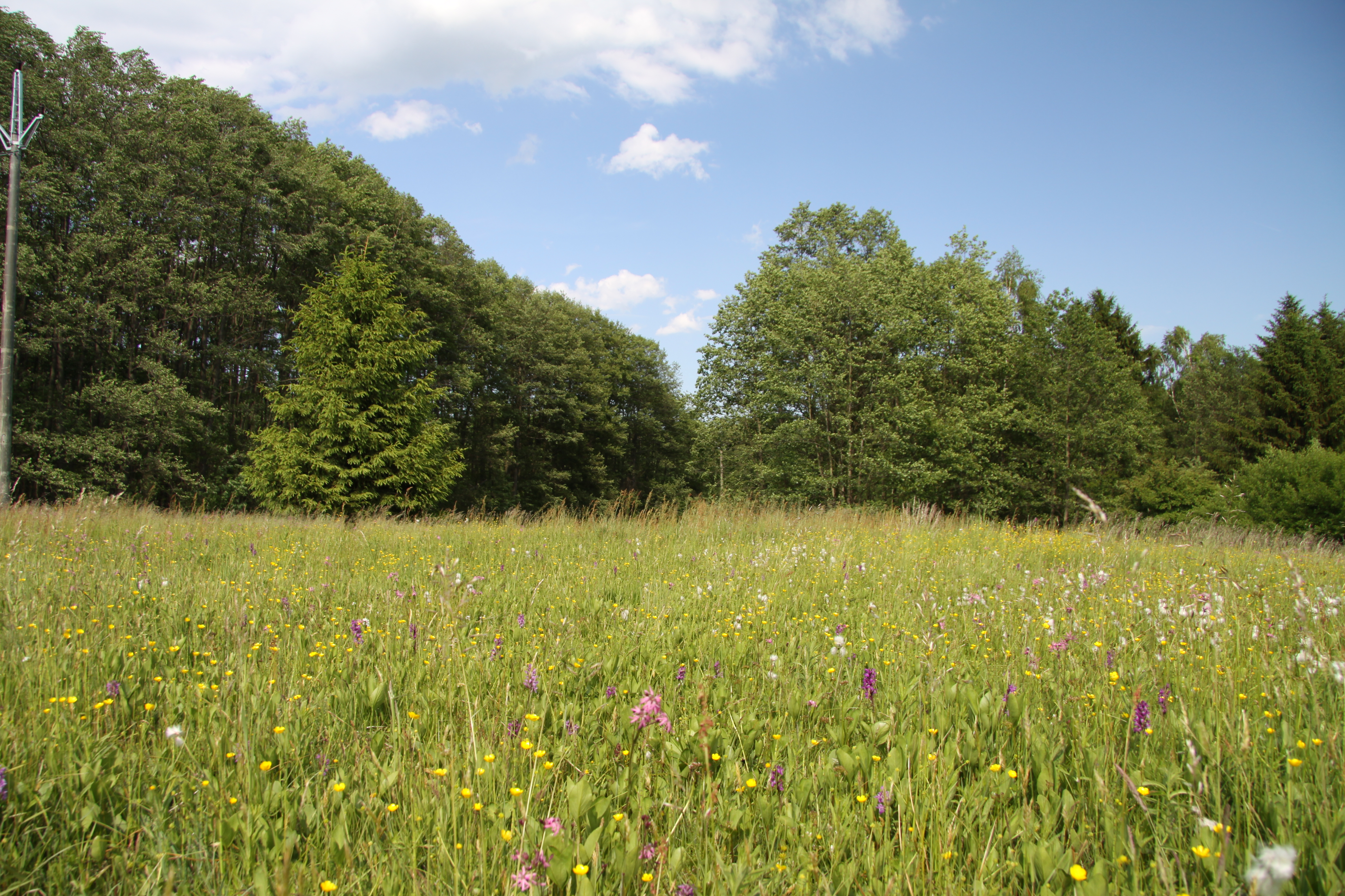 Natural monument Dolejší drahy near Nehodiv, Klatovy District, Czech Republic - Google Maps - Google Earth